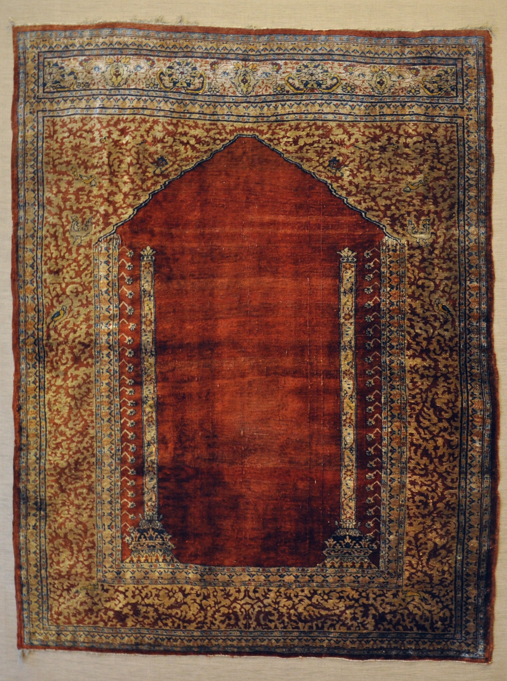 Knotted silk carpet; Iran, Tabriz, 18th/19th century; silk, knotted; Museum für Angewandte Kunst Frankfurt am Main, Inv. No. 14991